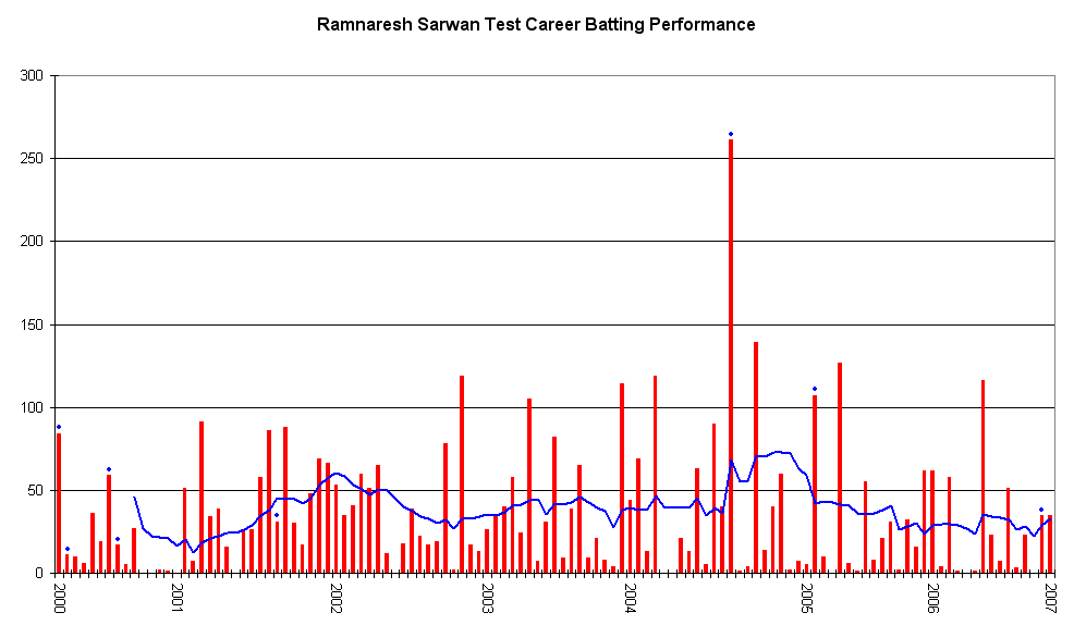 This graph details the Test Match performance of Ramnaresh Sarwan. It was created by Raven4x4x. The red bars indicate the player's test match innings, while the blue line shows the average of the ten most recent innings at that point. Note that this average cannot be calculated for the first nine innings. The blue dots indicate innings in which Sarwan finished not-out. This graph was generated with Microsoft Excel 2002, using data from Cricinfo [1] and Howstat [2]. The information in this chart is current as of 28 January 2008.